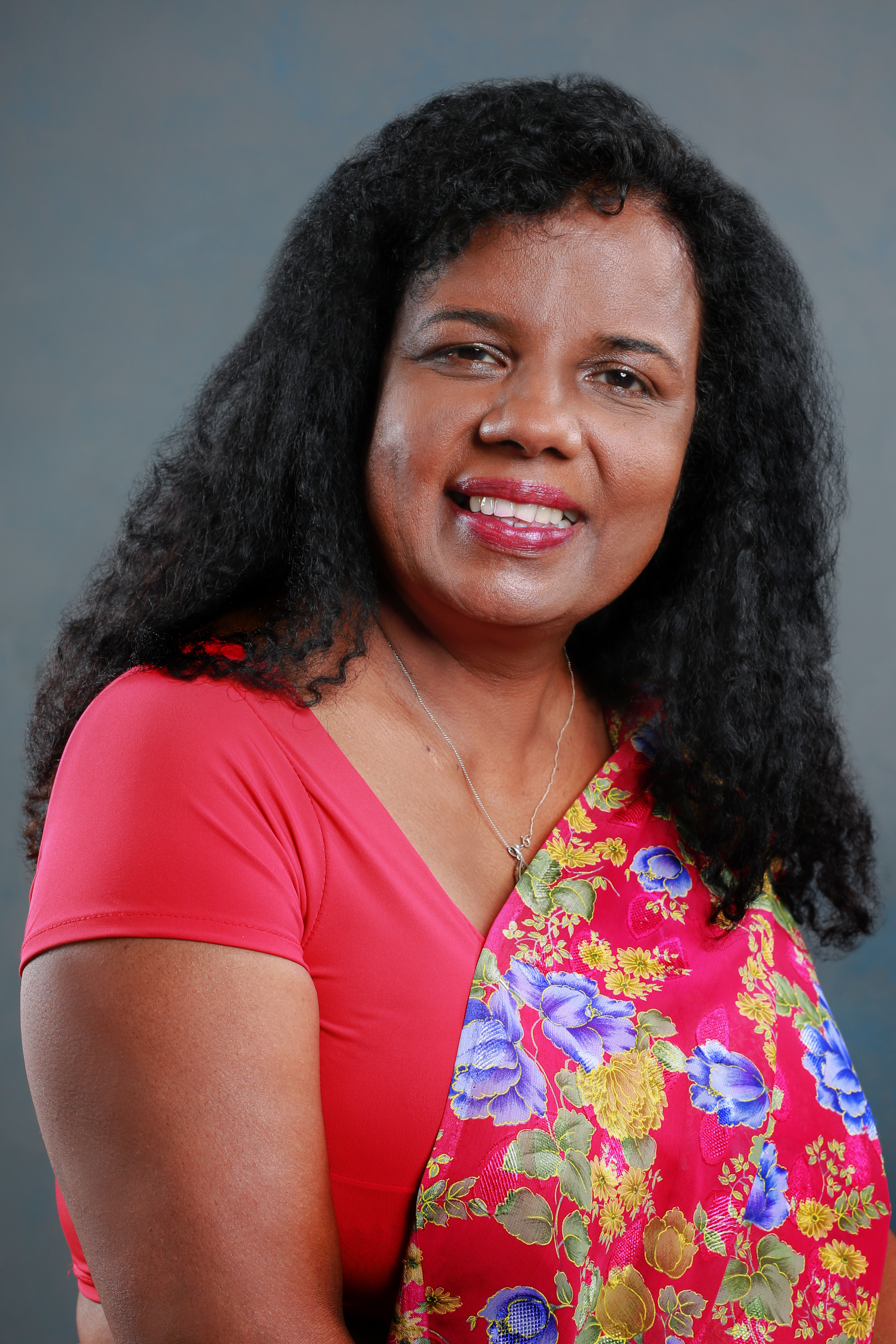 Dr. Ajantha Perera is an environmental scientist, who has served as a senior advisor to multiple Ministers in Sri Lanka, as well as Fiji. She has won multiple prestigious awards, including being nominated as the International Woman of Courage for Sri Lanka and is a recipient of the Ashoka Fellowship in 2005. She actively seeks to bring about sustainable development to marginalized communities.